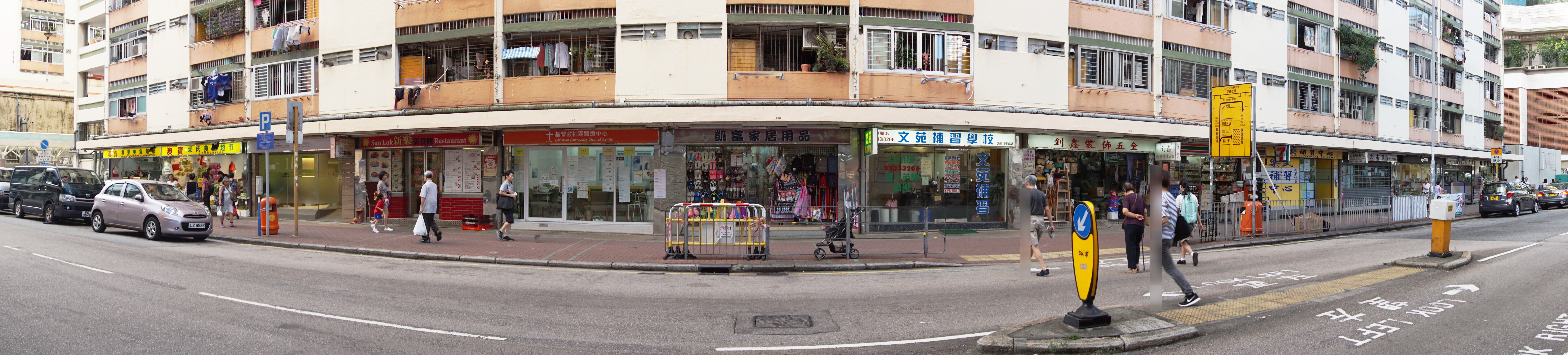 Lok Seen Lau in To Kwa Wan, Hong Kong.